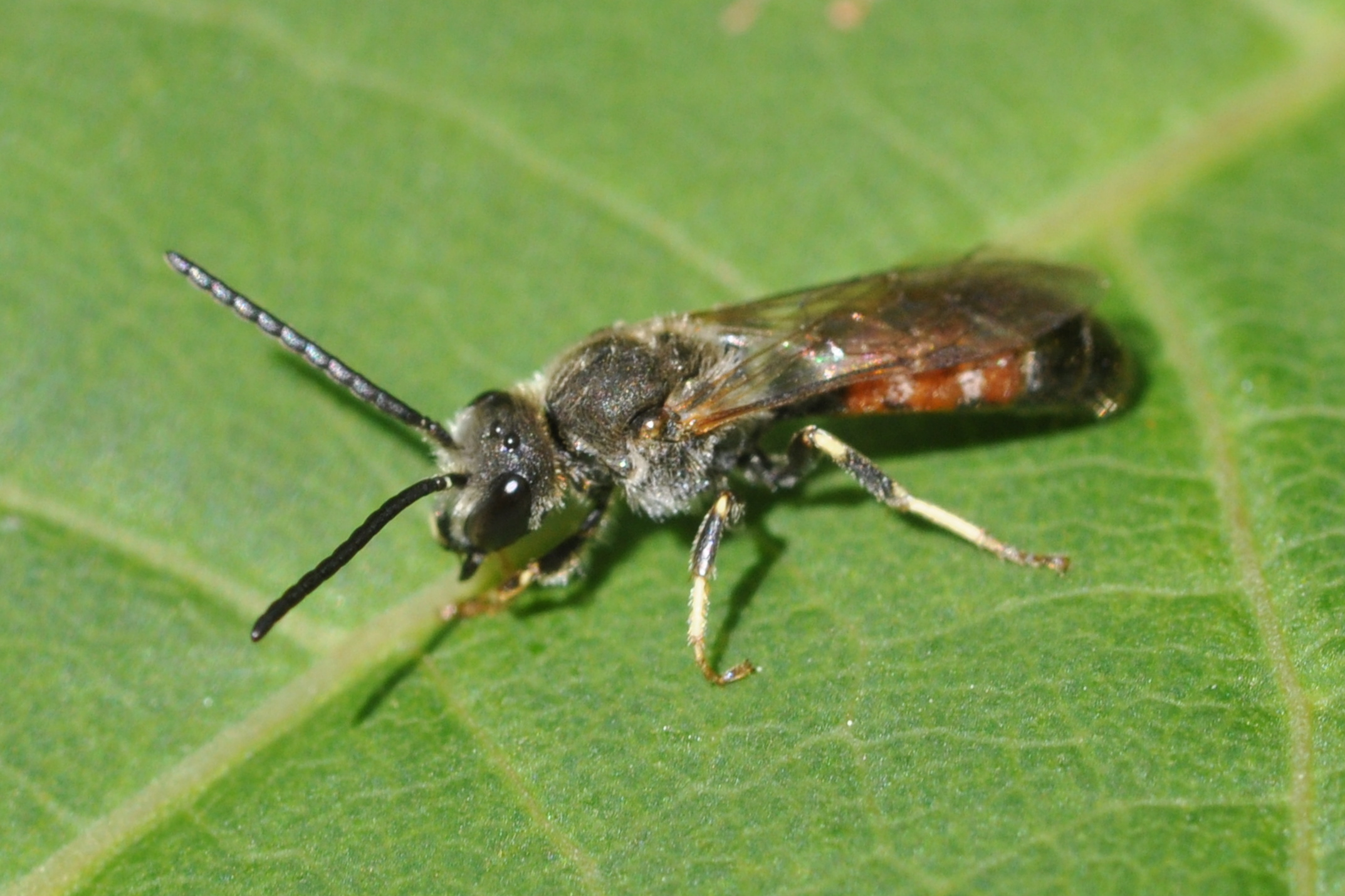 Male Slender Mining Bee (Lasioglossum calceatum) in Bahrenfeld, Hamburg.